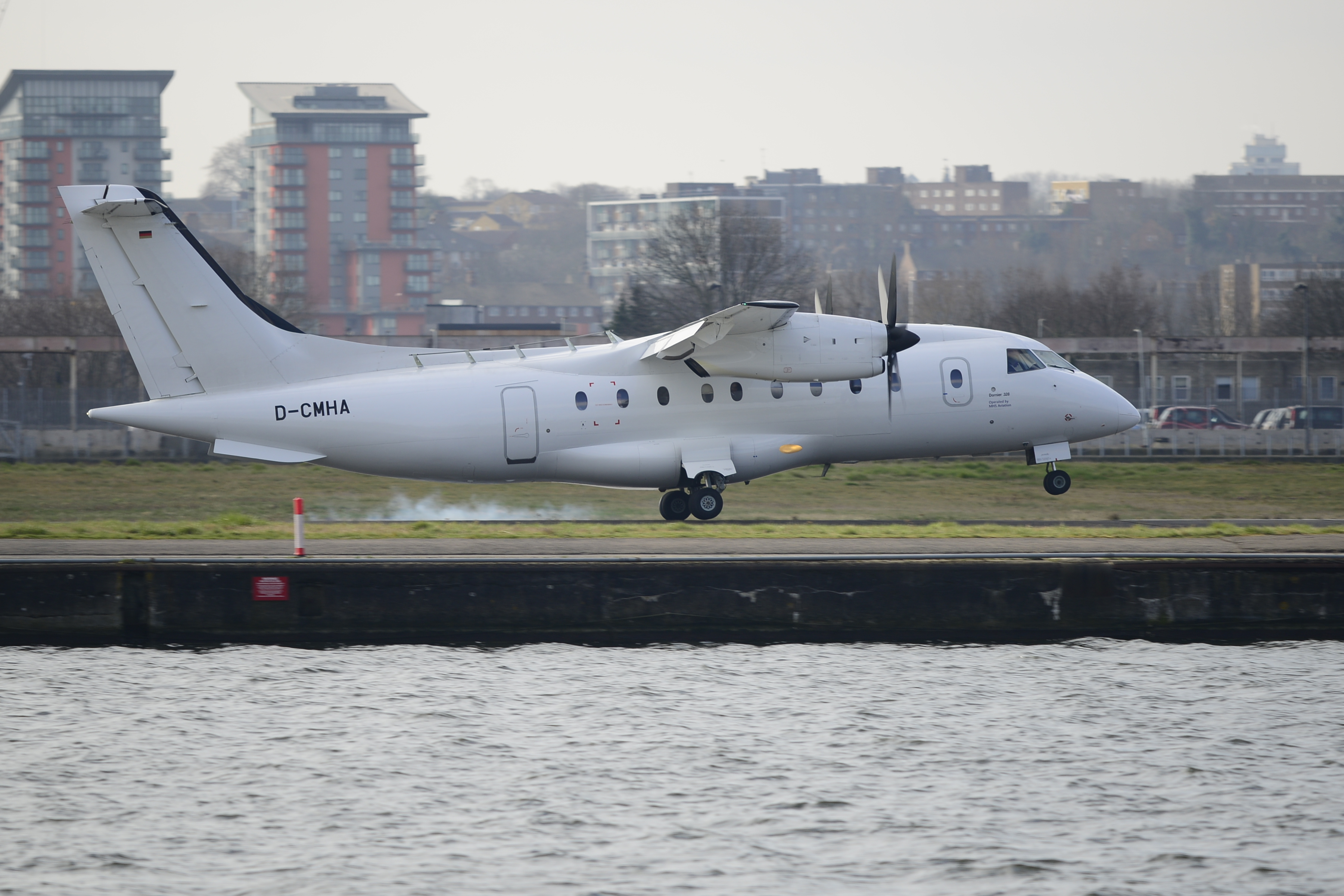 D-CMHA Dornier 326 MHS Aviation touchdown